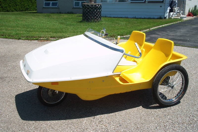 A restored yellow PPV, People Powered Vehicle. St. George, Ontario, Canada.